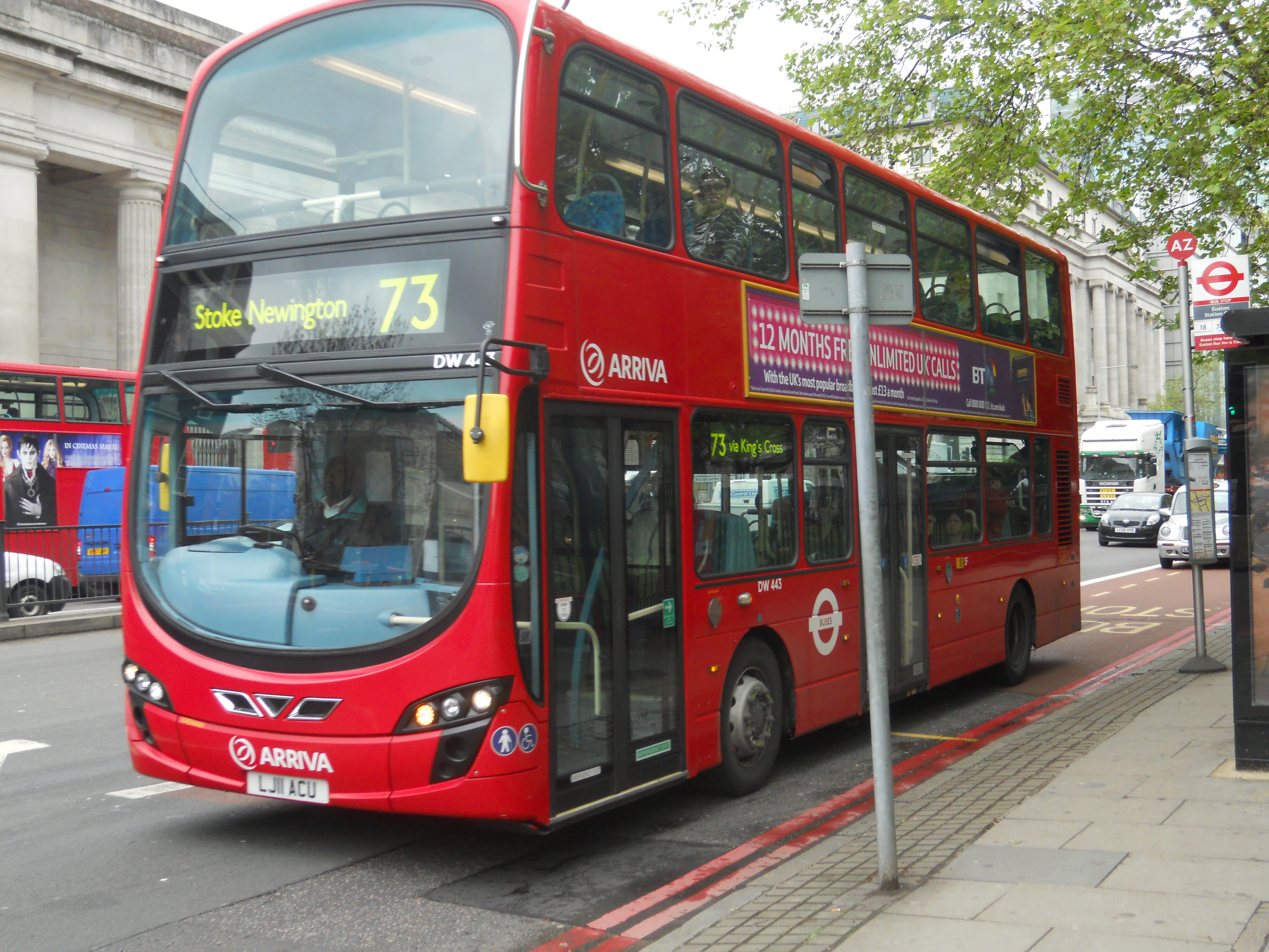 LJ11ACU - Wright Gemini 2-bodied VDL DB300. New in August 2011 to Arriva London as DW443. In many towns and cities in the UK, there all pretty much standardised (E.G. Arriva, Stagecoach, First et, all in their usual liveries). Here in London alone, although under Arriva ownership and like everywhere else in the UK, low-floor design, their buses must ALWAYS be red. Nice to see it with the iconic roundel symbol which became synonymous with London Transport! If I had it MY way, many towns and cities would follow suit by keeping their buses in the livieries associated with the town/city in question.......in MY case, buses accross Greater Manchester would revert back to the traditional pre-1980 or post-1980 GMT livery (depending on which would be most popular!)